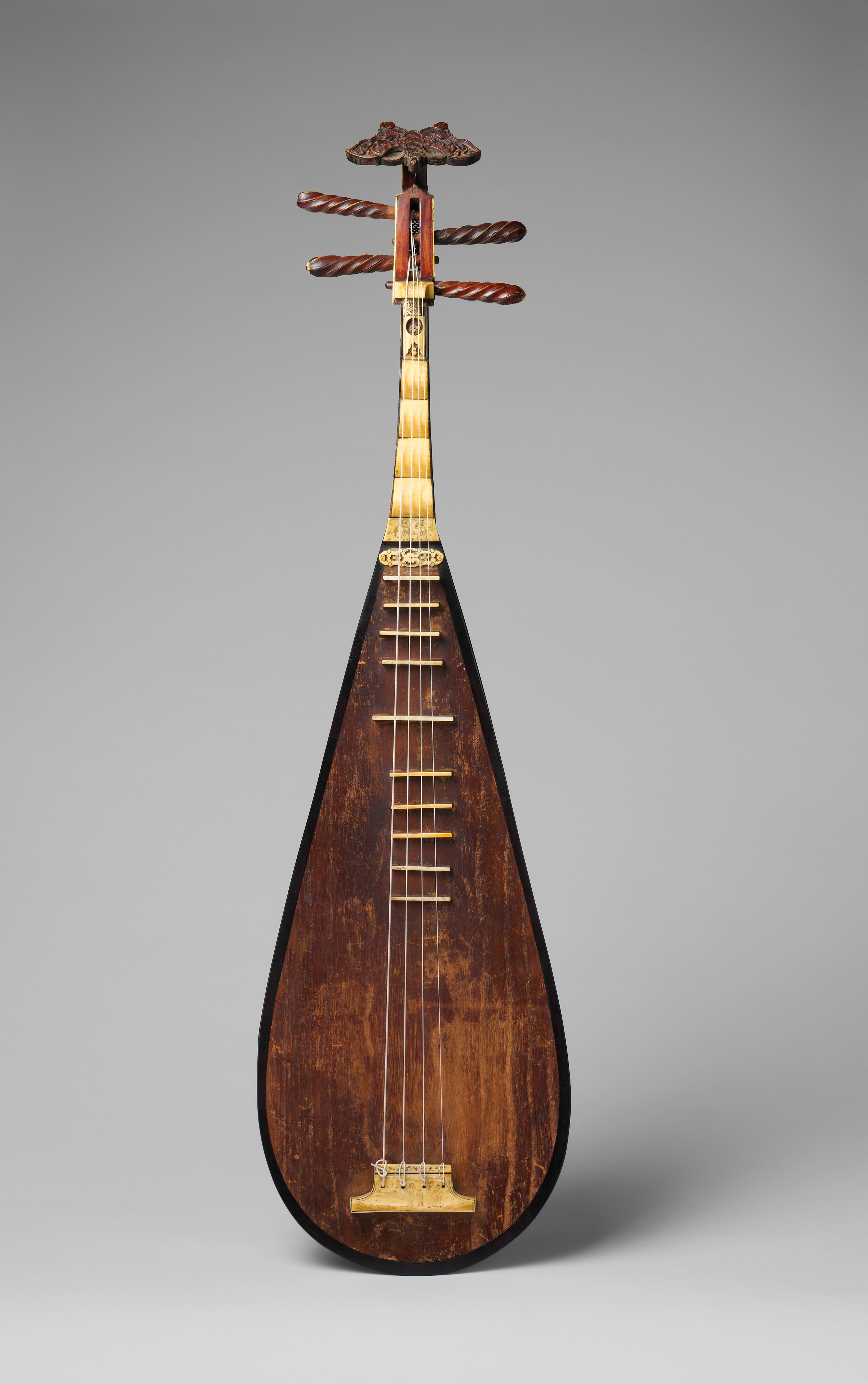 Pipa (琵琶) Chordophone-lute-plucked-fretted The spectacular back and sides of this unique Ming-dynasty instrument feature more than 110 hexagonal ivory plaques, with thinner bone plaques on the neck. Each plaque is carved with Taoist, Confucian, or Buddhist figures and symbols signifying prosperity, happiness, and good luck. These include images of various gods and immortals, such as Shou Lao, the Daoist god of longevity, who is shown with a prominent forehead on the single plaque at the very top. When the instrument is played, this expert workmanship remains unseen by the listener, as the back faces the player. The front is relatively plain but shows signs of use. The ivory string holder bears a scene featuring four figures and a bridge; an archaic cursive inscription; and, at the lip, a bat motif with leafy tendrils. Above the lower frets, two small insets depict a spider and a bird, and just before the rounded upper frets, a trapezoidal plaque portrays two men, one with a fish. The finial repeats the bat (good luck) motif.